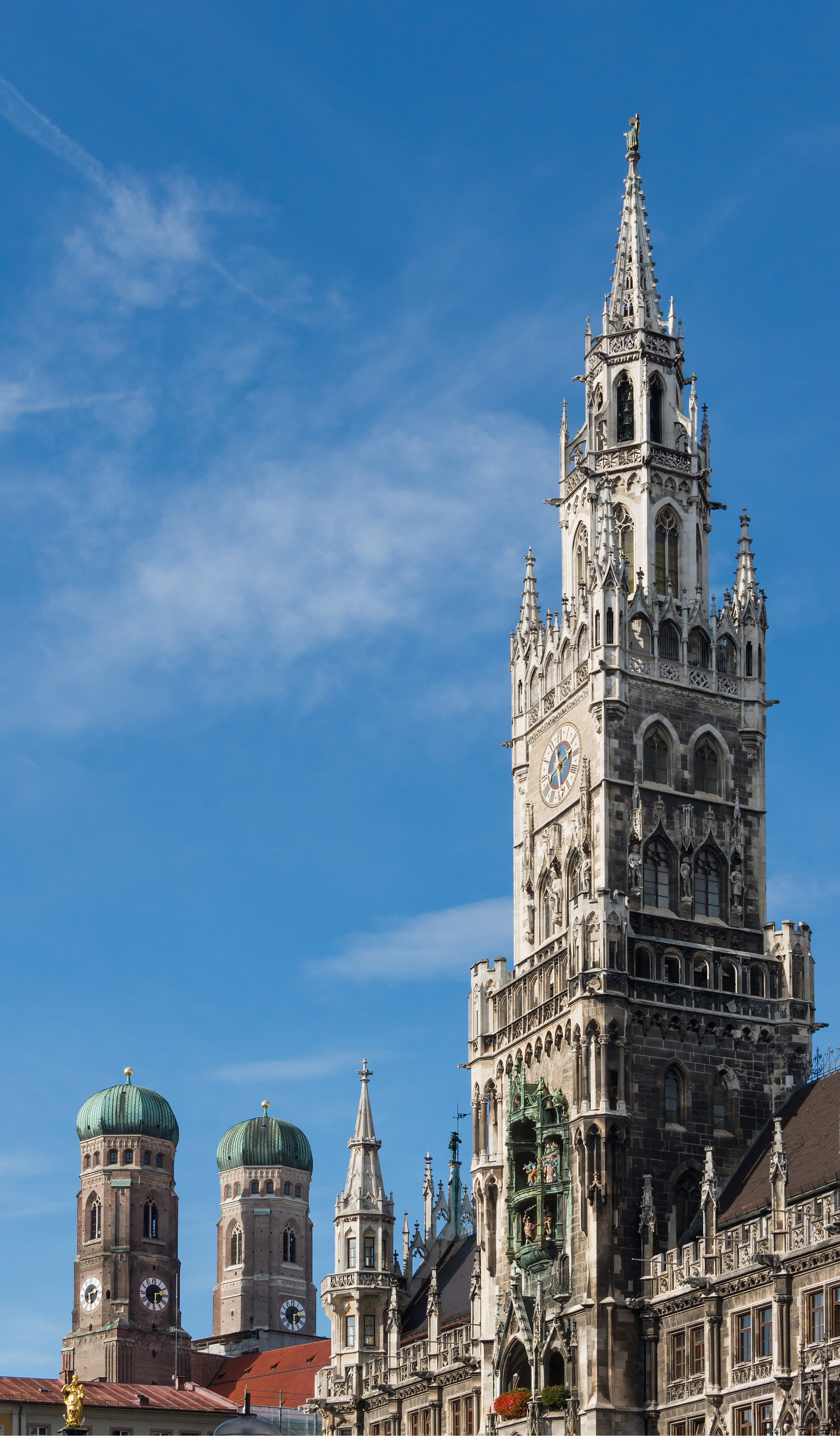 The belfry of the new town hall, the towers of the Cathedral, the statue of Virgin Mary, Munich, Bavaria, Germany.